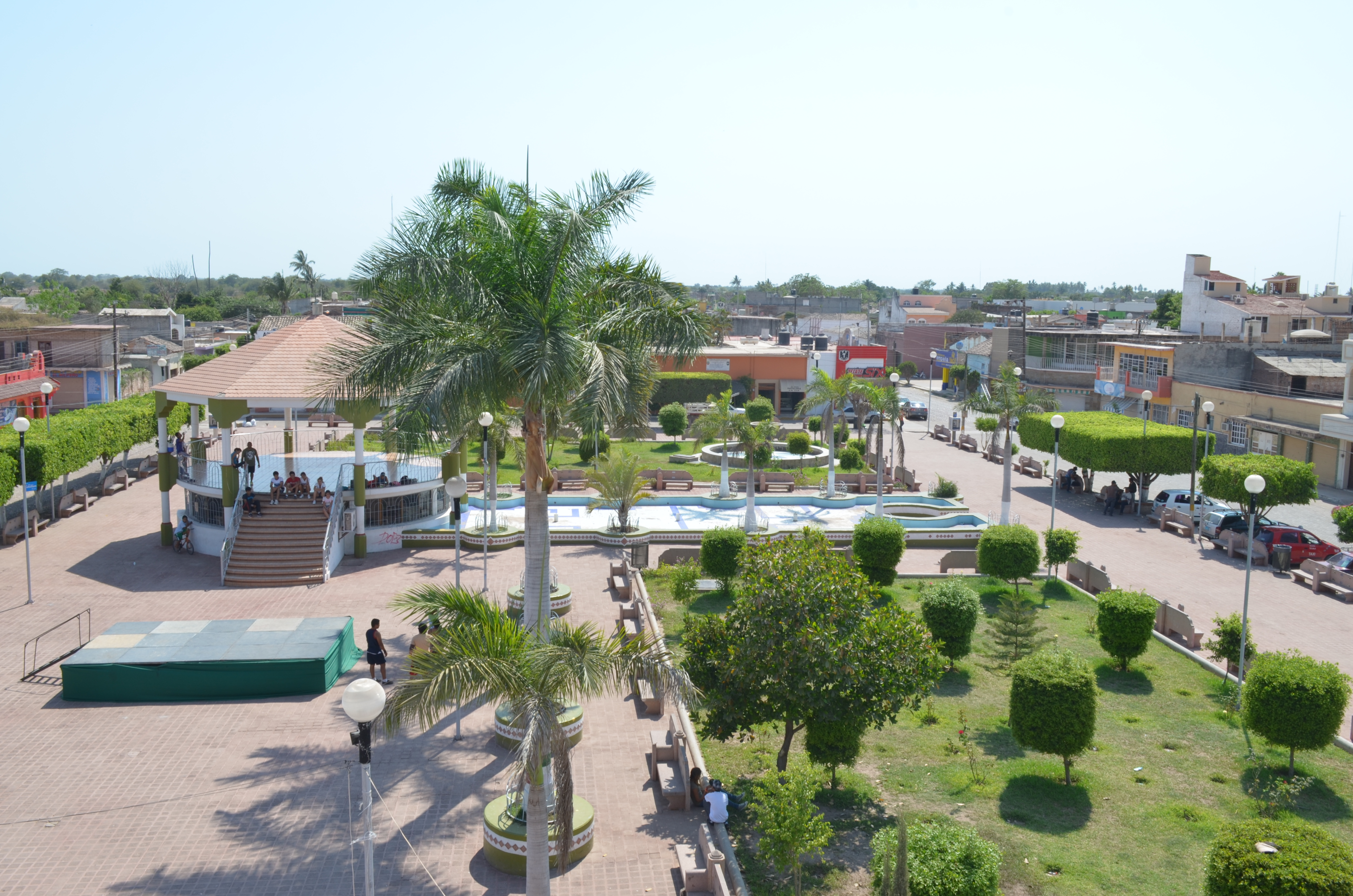 Main square of Tecuala, Nayarit, México